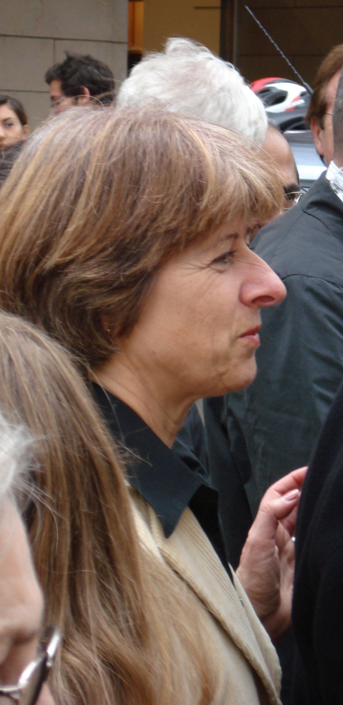 Annemarie Huber-Hotz, the Swiss Federal Chancellor, in Geneva, Switzerland.